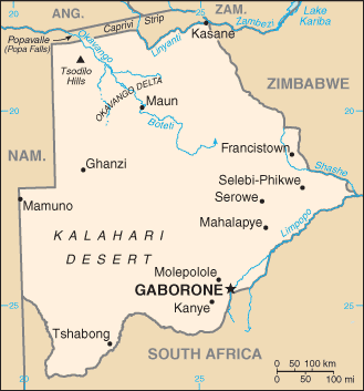 A map of Botswana, showing major cities.